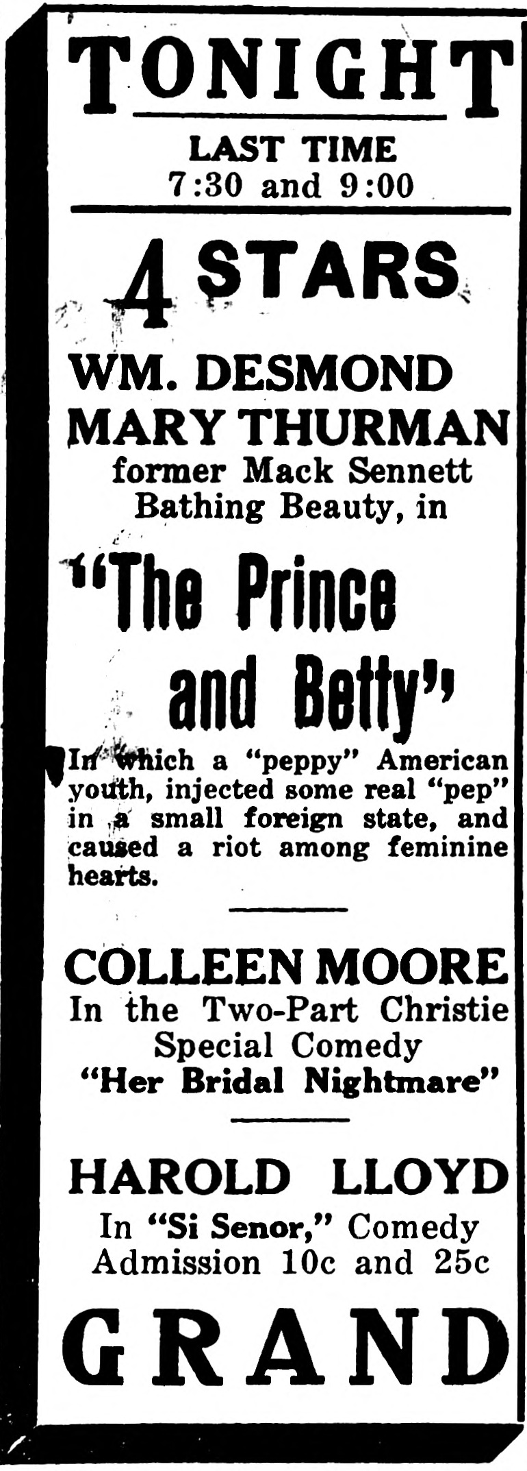 A newspaper advert for three films: The Prince and Betty, Her Bridal Nightmare, and Si Senior.